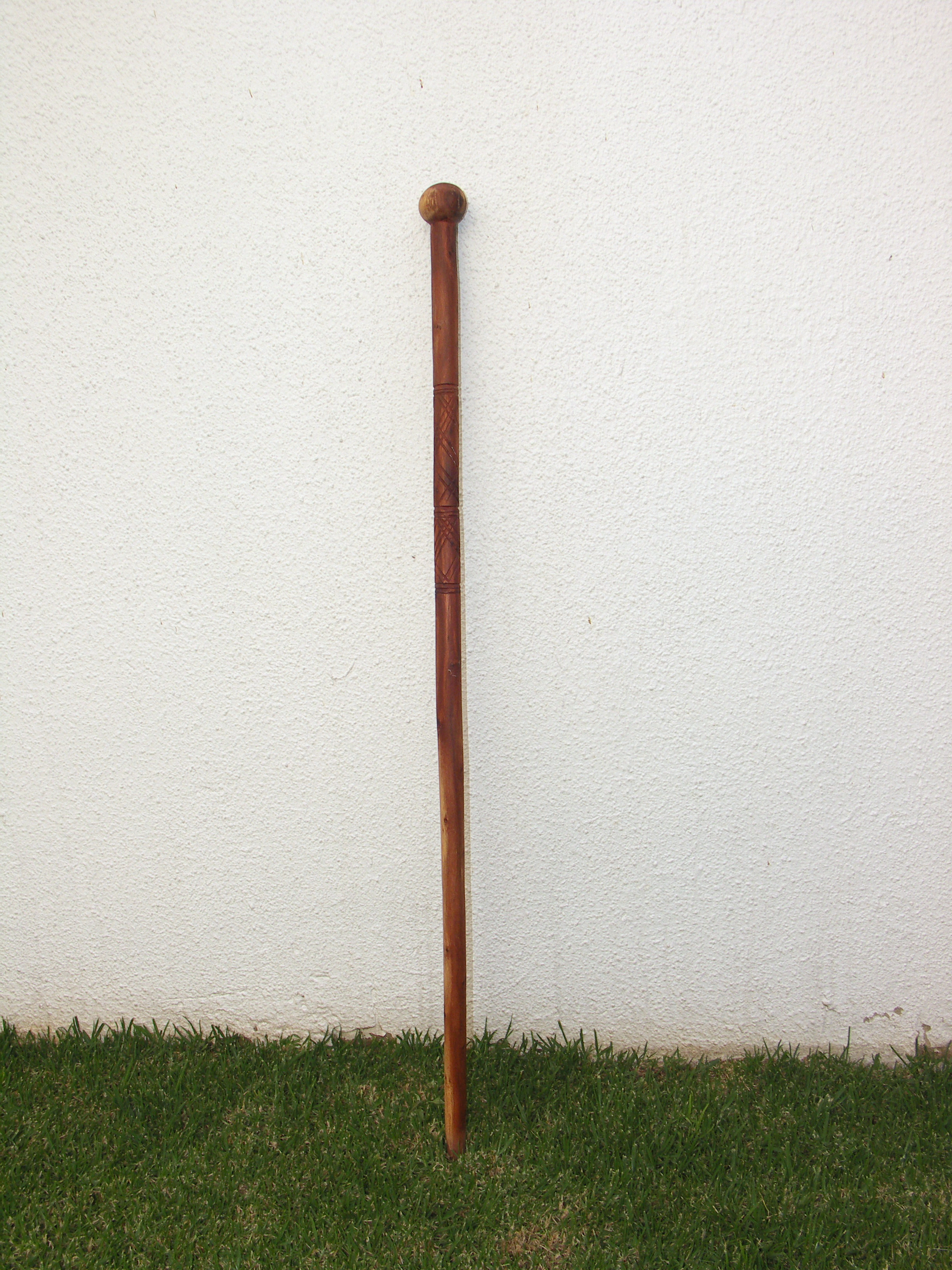 A simple Knobkerrie